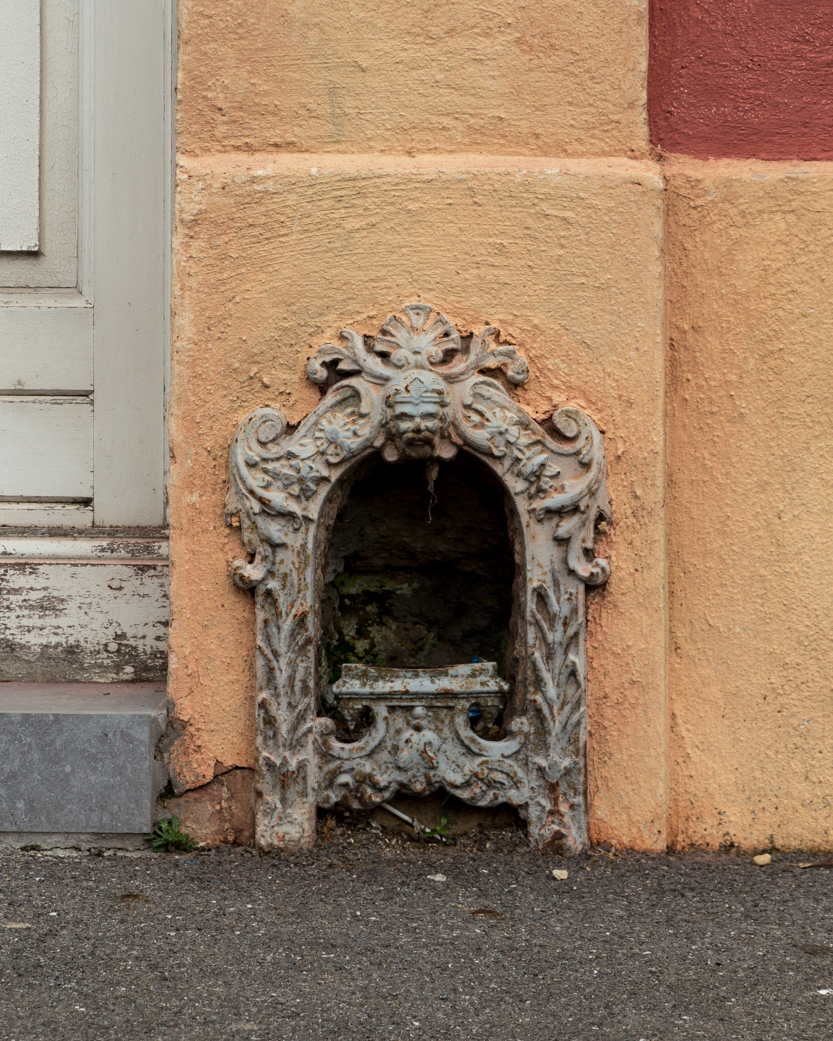 Door scrapers in Mézières, Charleville-Mézières, France